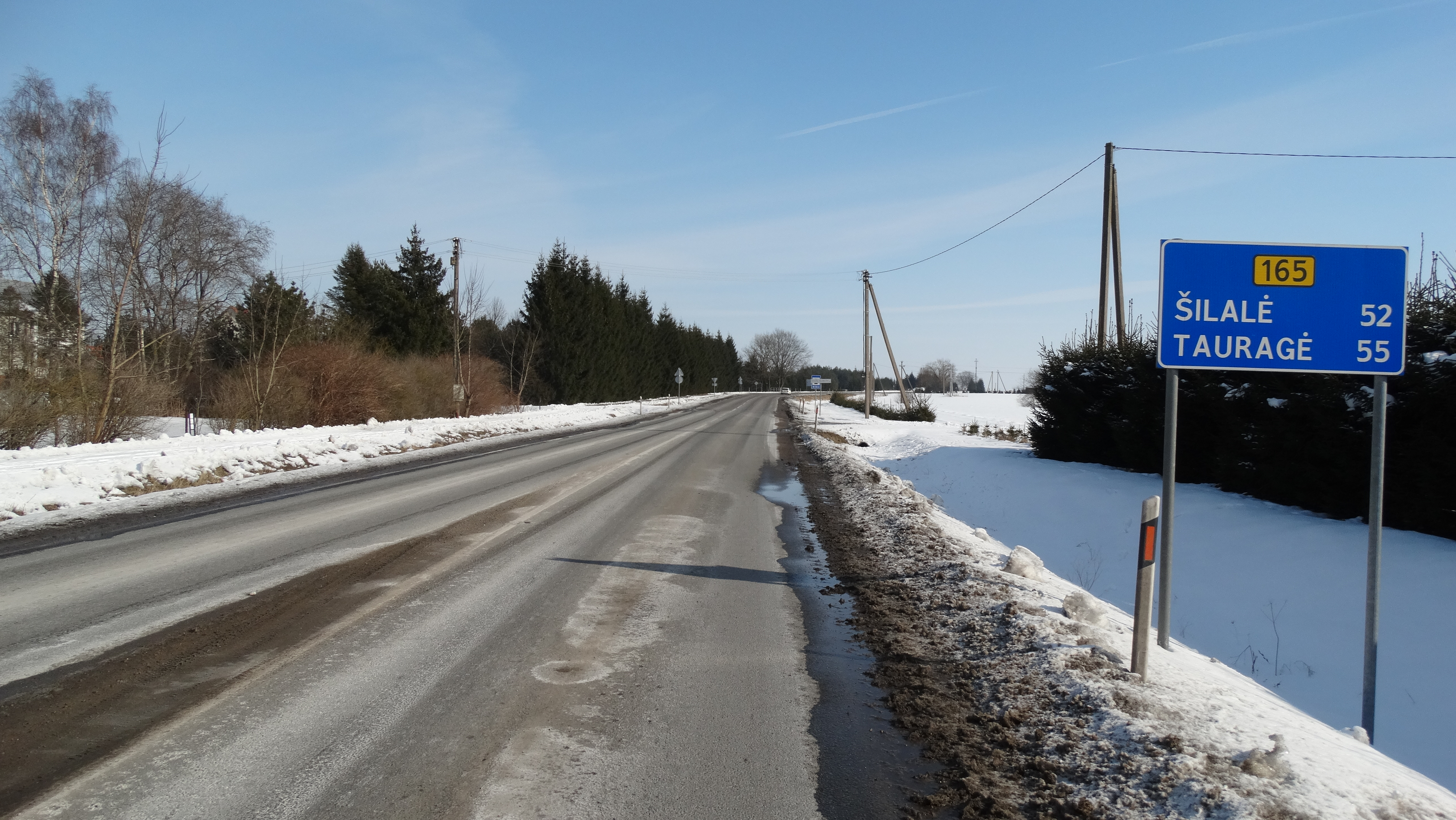 Road 165, Šilutė, Lithuania